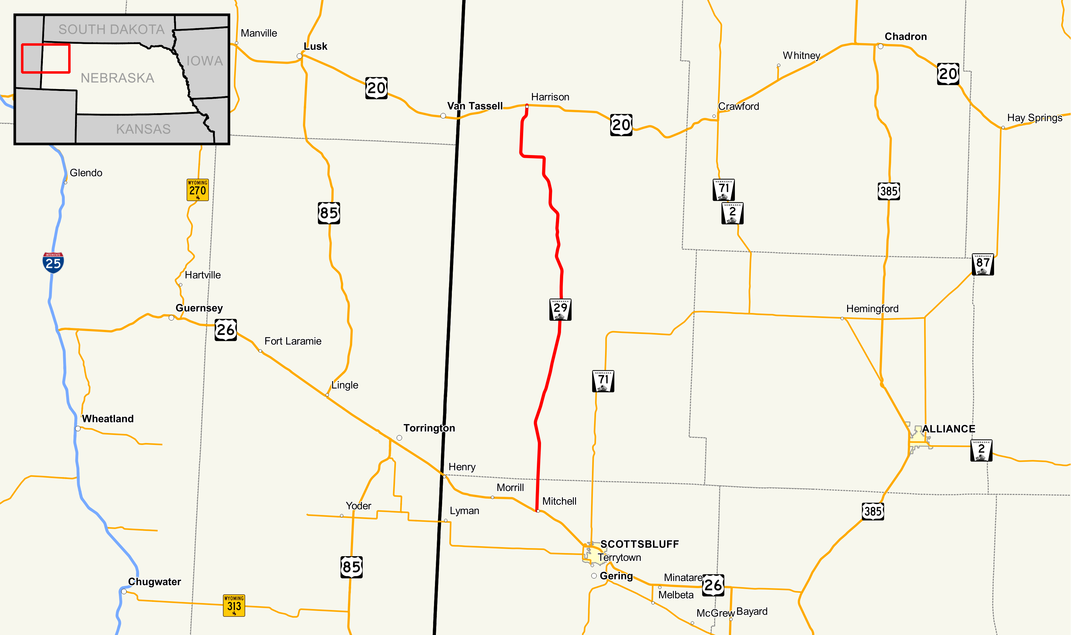 Map of Nebraska Highway 29 Data Sources: Nebraska Highways - - Dec 2016 Nebraska County Boundaries - - Dec 2016 Nebraska City Boundaries - - Dec 2016 This PNG graphic was created with QGIS